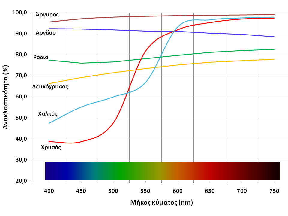 Reflectivity of some metals between 400 nm and 750 nm